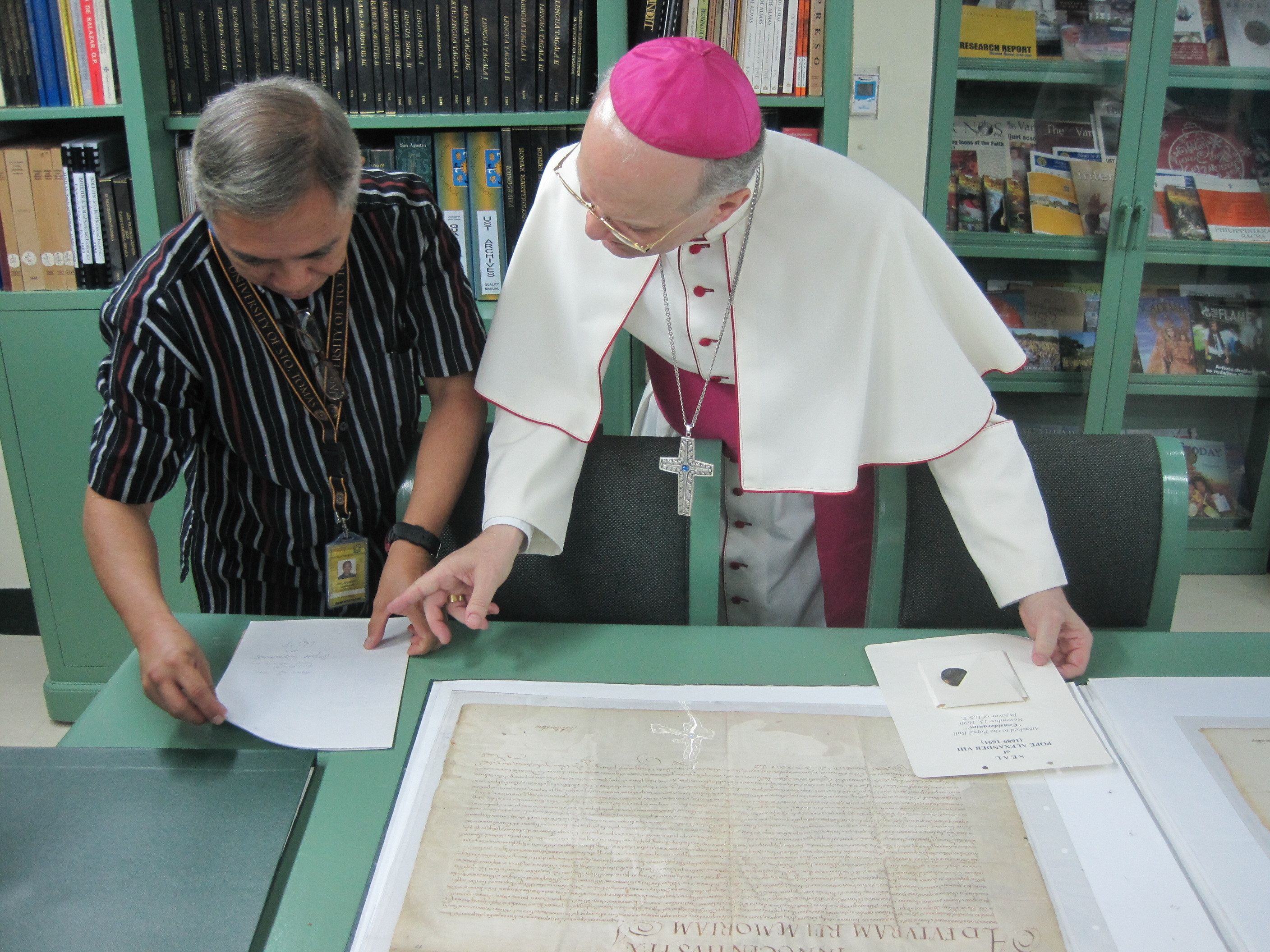 Visit of Archbishop Angelo Vincenzo Zani, Secretary of the Congregation for Catholic Education of the Holy See (Vatican), to the Archives of the Pontifical and Royal University of Santo Tomas in Manila, 21 January 2015.